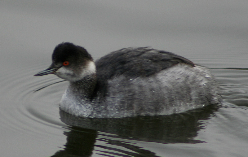 Black-necked grebe, Lake Merritt in Oakland, CA